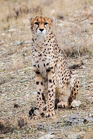 Delbar(female)[left] and Kooshki(male),two Asiatic Cheetahs in Iran.